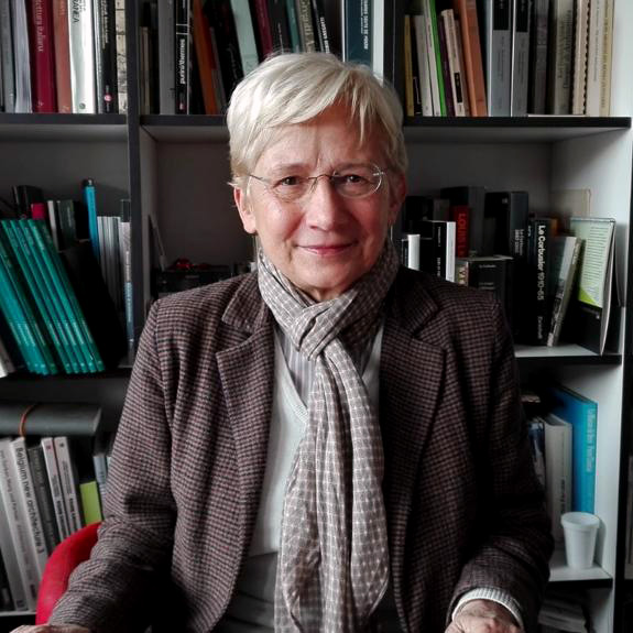 Margherita Petranzan in her Studio